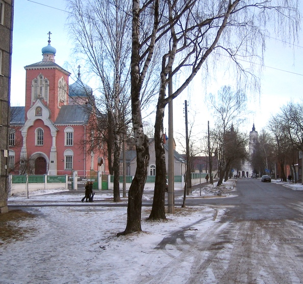 Andreja Pumpura iela (Andrejs Pumpurs Street), Daugavpils. The major Russian Orthodox Old Believers' house of worship is at left, one of the major churches at the head of the street. Digital photograph by Pēteris Cedriņš.